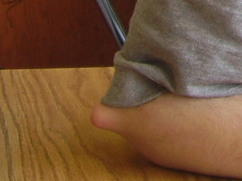 A bone tumor that I used to have in my arm before getting surgery, taken by a friend of myself Jaranda, personal photo kiewano